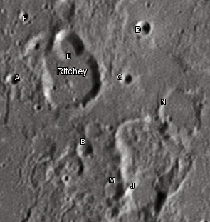 Ritchey lunar crater as seen from Earth with satellite craters labeled